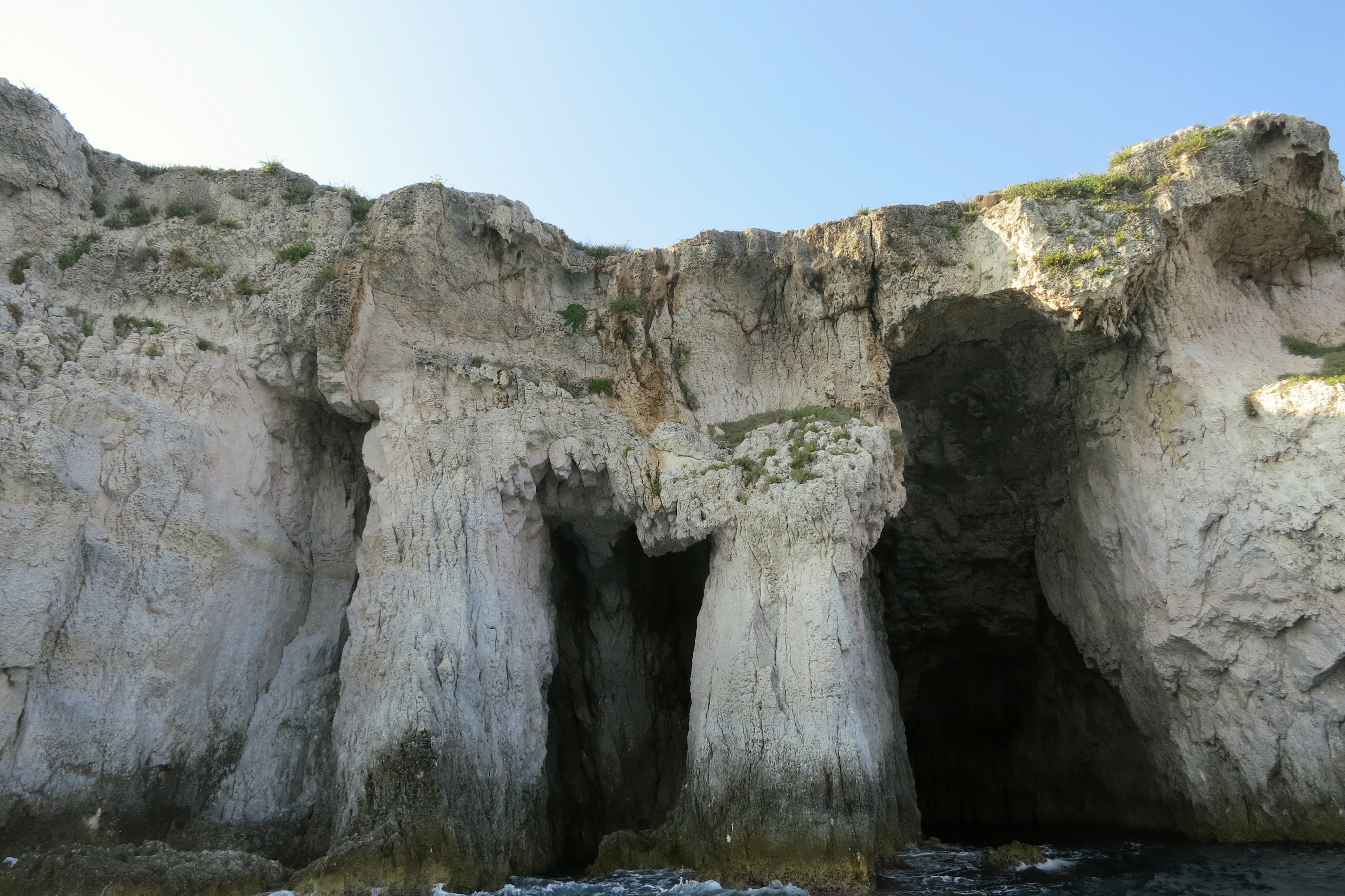 Caves on the coast of Syracuse.